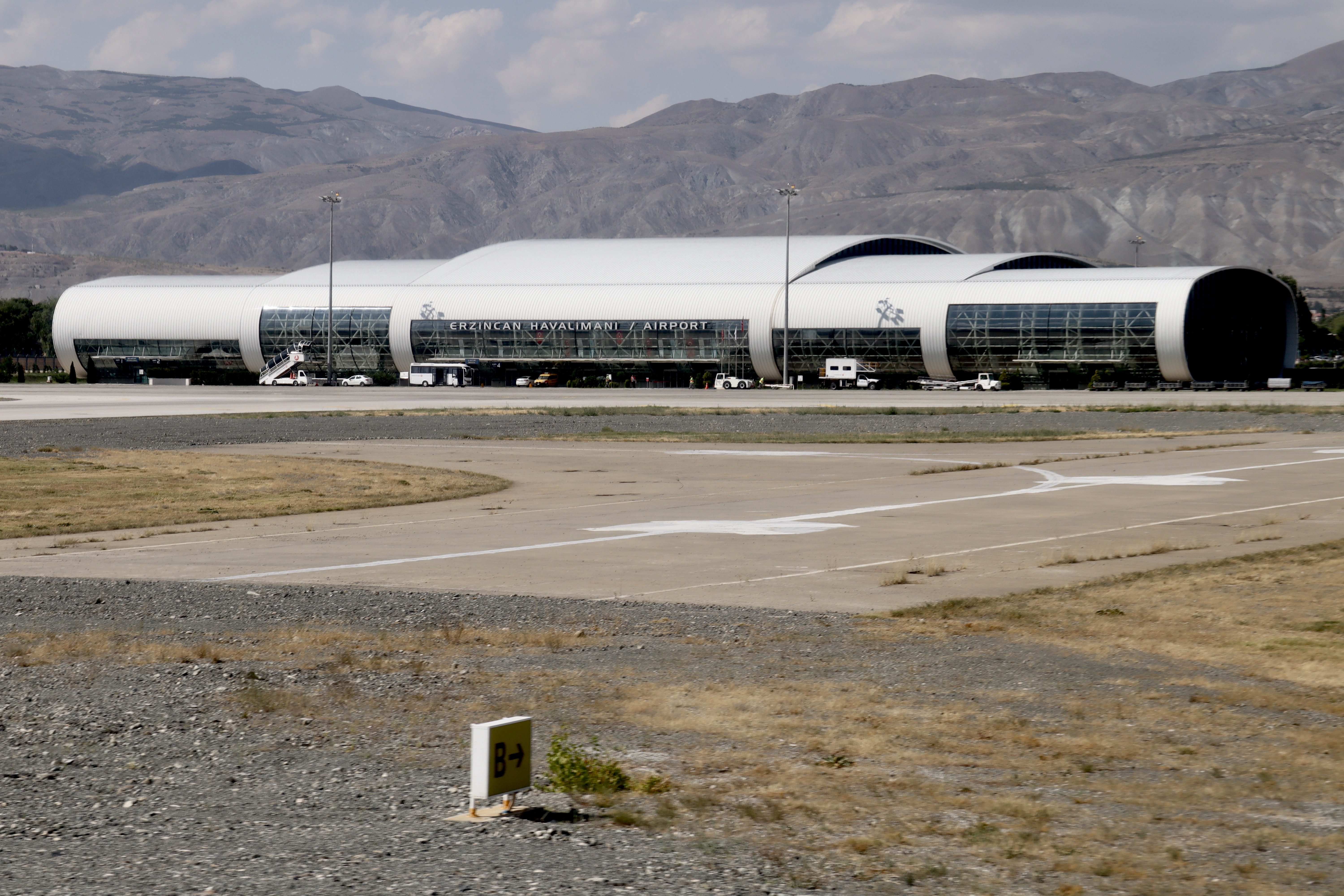 Modern terminal of the city of Erzincan in Eastern Turkey.